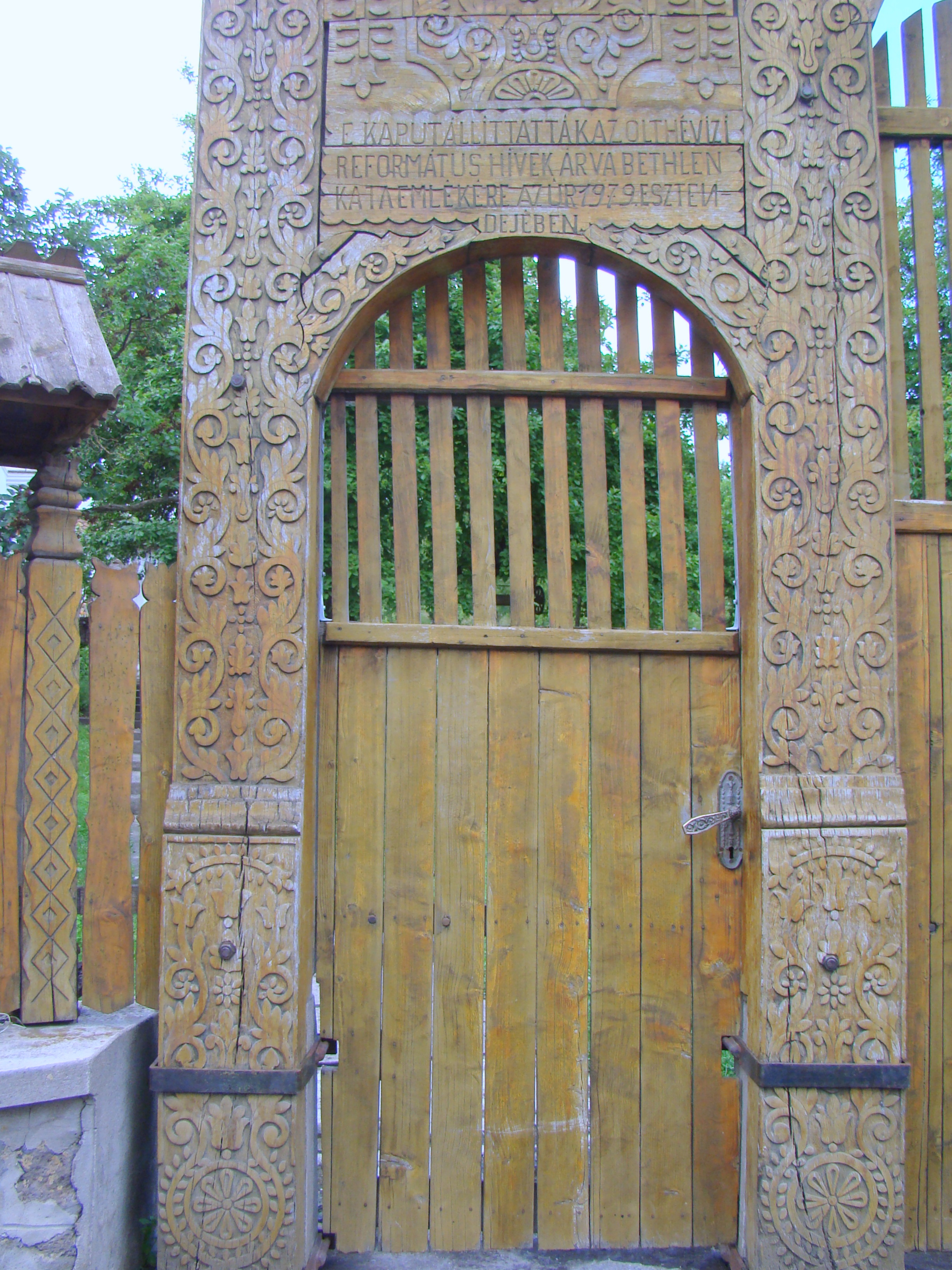 Reformed church in Hoghiz, Brașov county, Romania